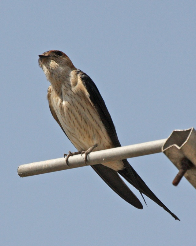 Red-rumped Swallow Cecropis daurica nipalensis. Pokhara Valley, Nepal. 12 March 2009 IMG_6440